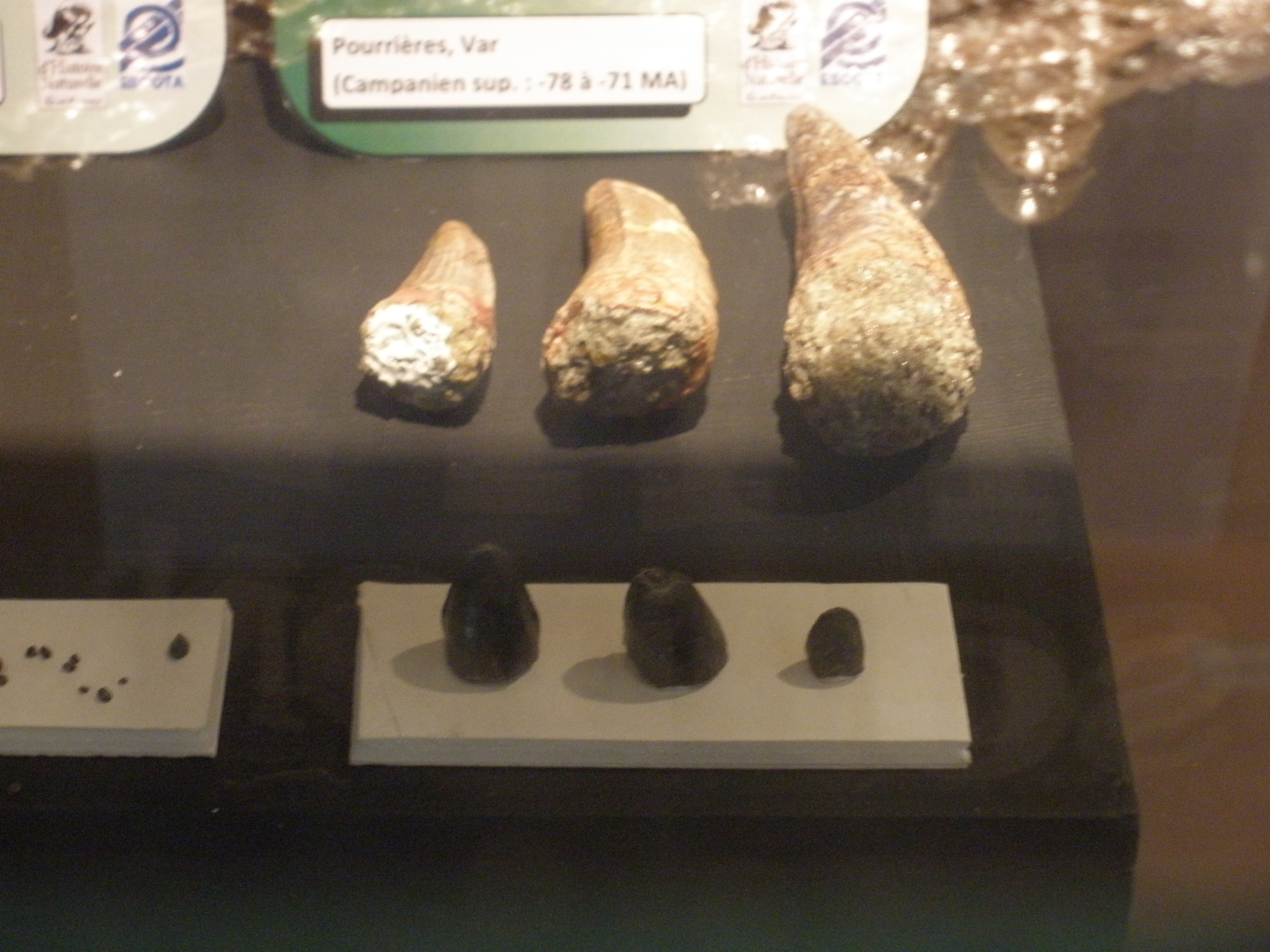 fossil of Ischyrochampsa meridionalis, an extinct crocodile